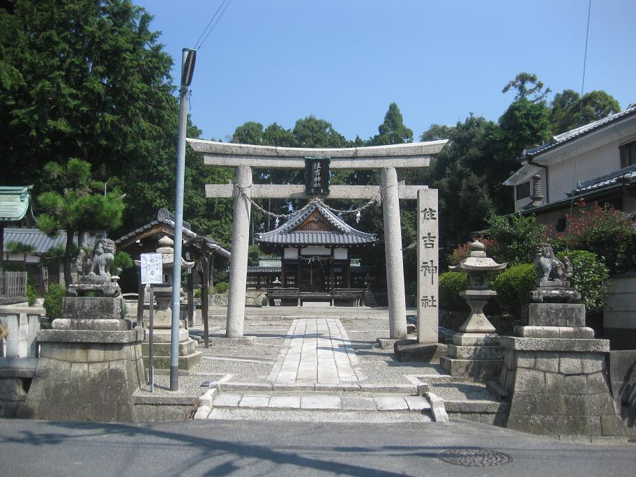 Sumiyoshi Shrine in Fuke-cho, Moriyama, Shiga, Japan